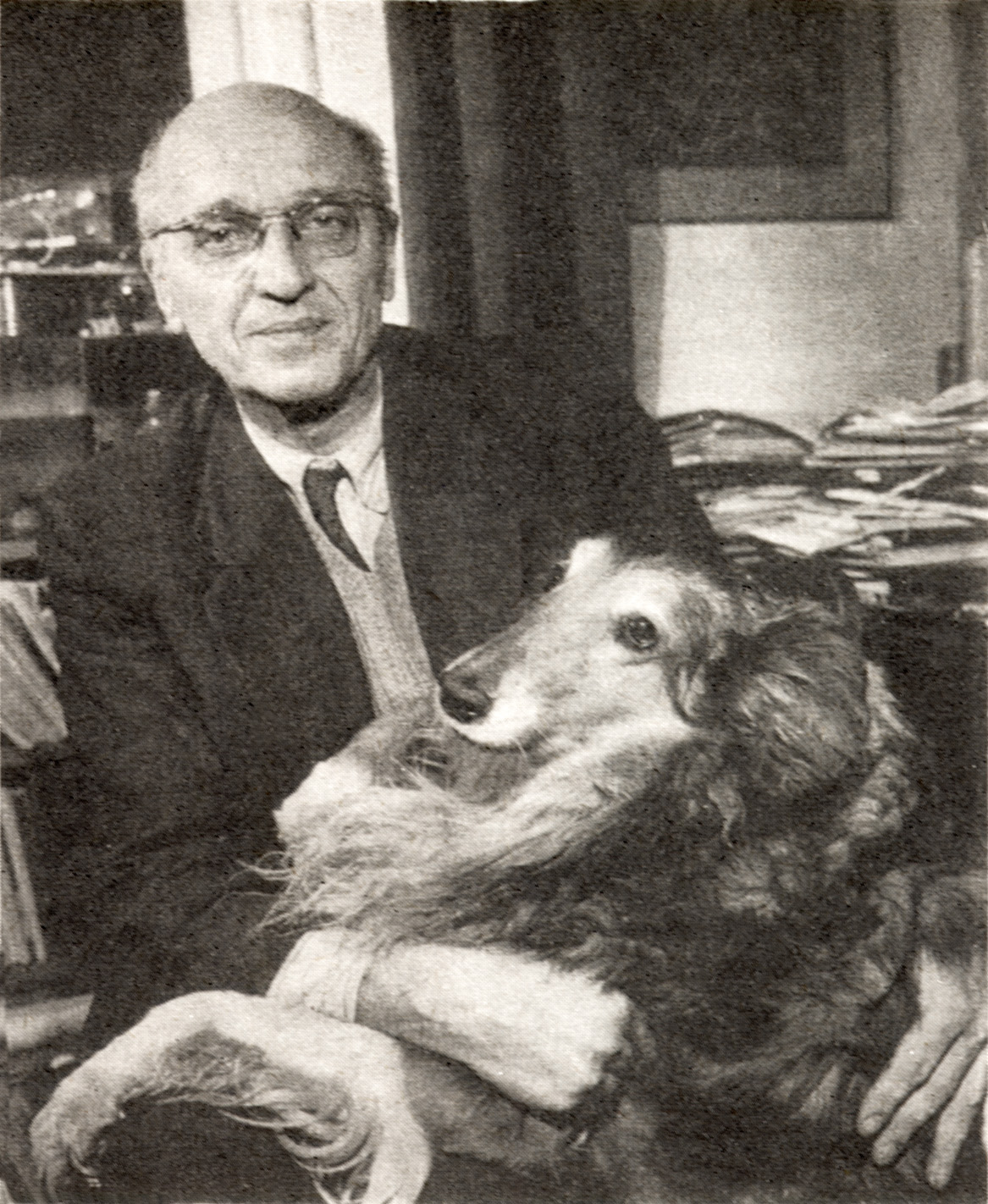 Jan Żabiński, Polish zoologist